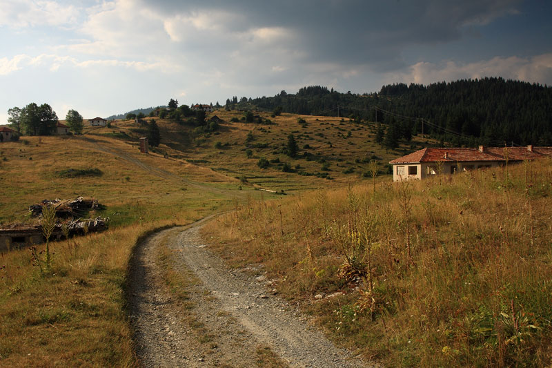 Depopulated village of Chamla